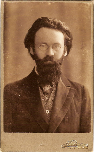 Sigurd Agrell (1881-1937), Swedish poet, runologist and professor in slavic languages at Lund university, Sweden.